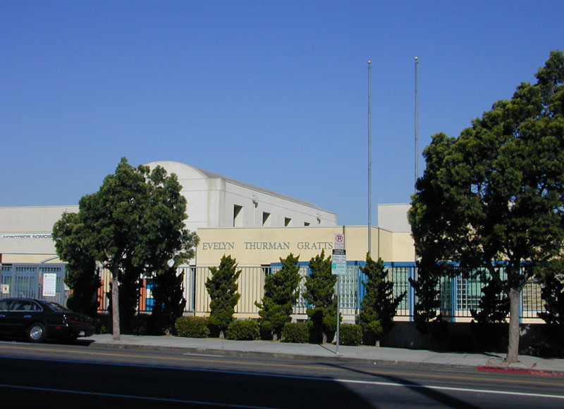 Evelyn Thurman Gratts Elementary School, Los Angeles CA